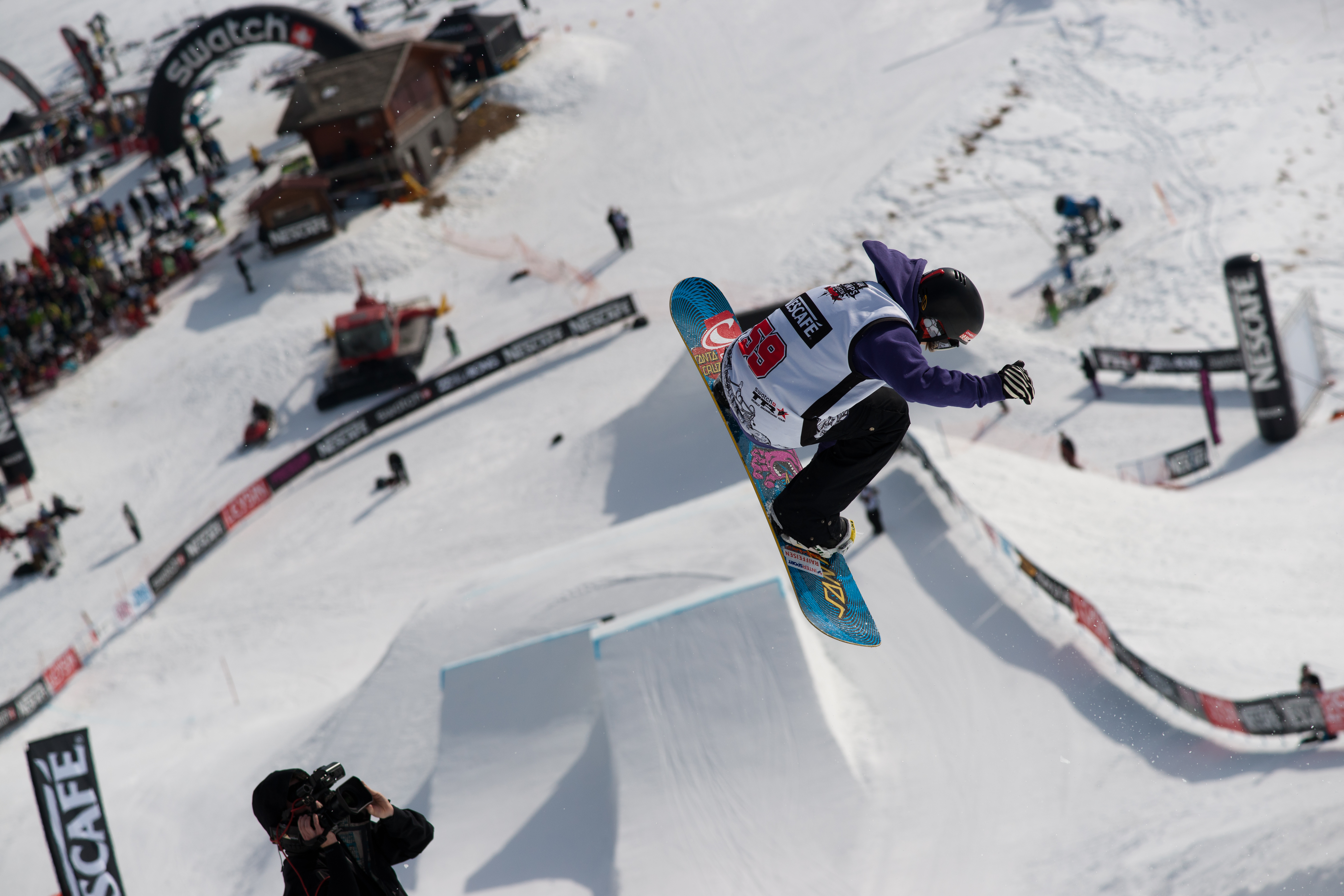 The making of this document was supported by Wikimedia CH. (Submit your project!) For all the files concerned, please see the category Supported by Wikimedia CH. 20th Leysin Nescafe Champs, 8th - 13th February 2011